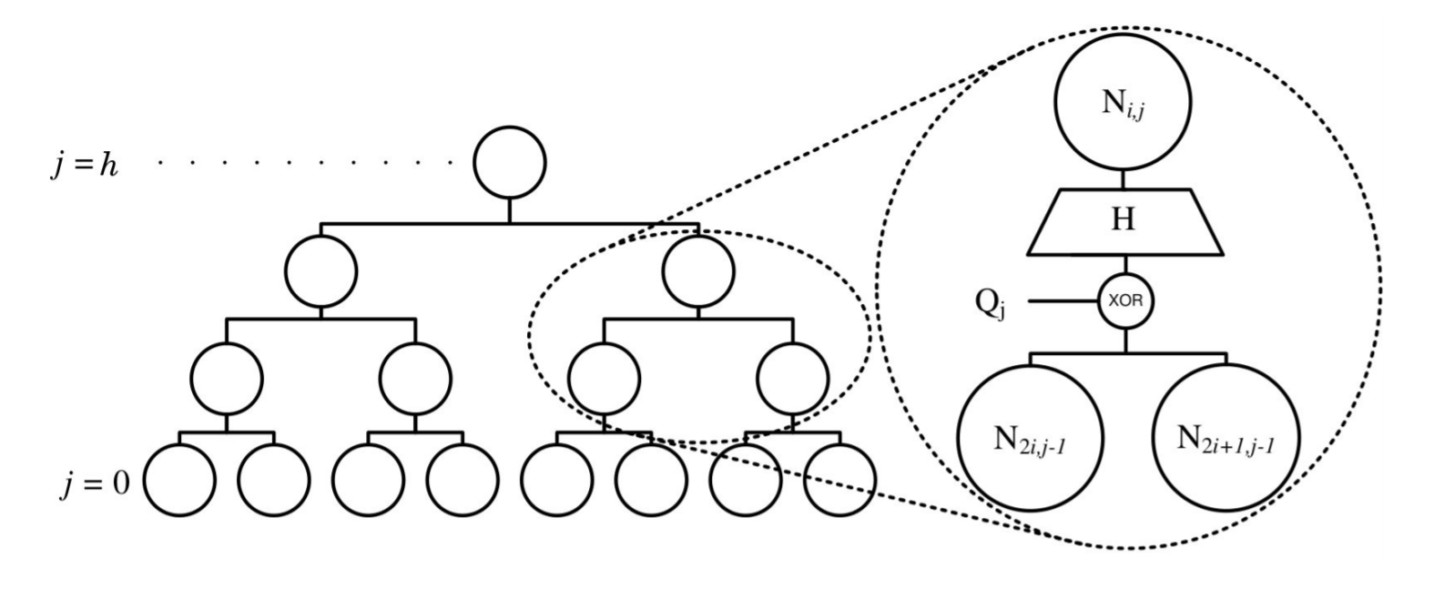 binary hash tree